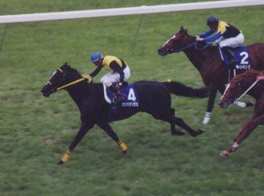 Manhattan Cafe(Horse, Kyoto Racecourse)